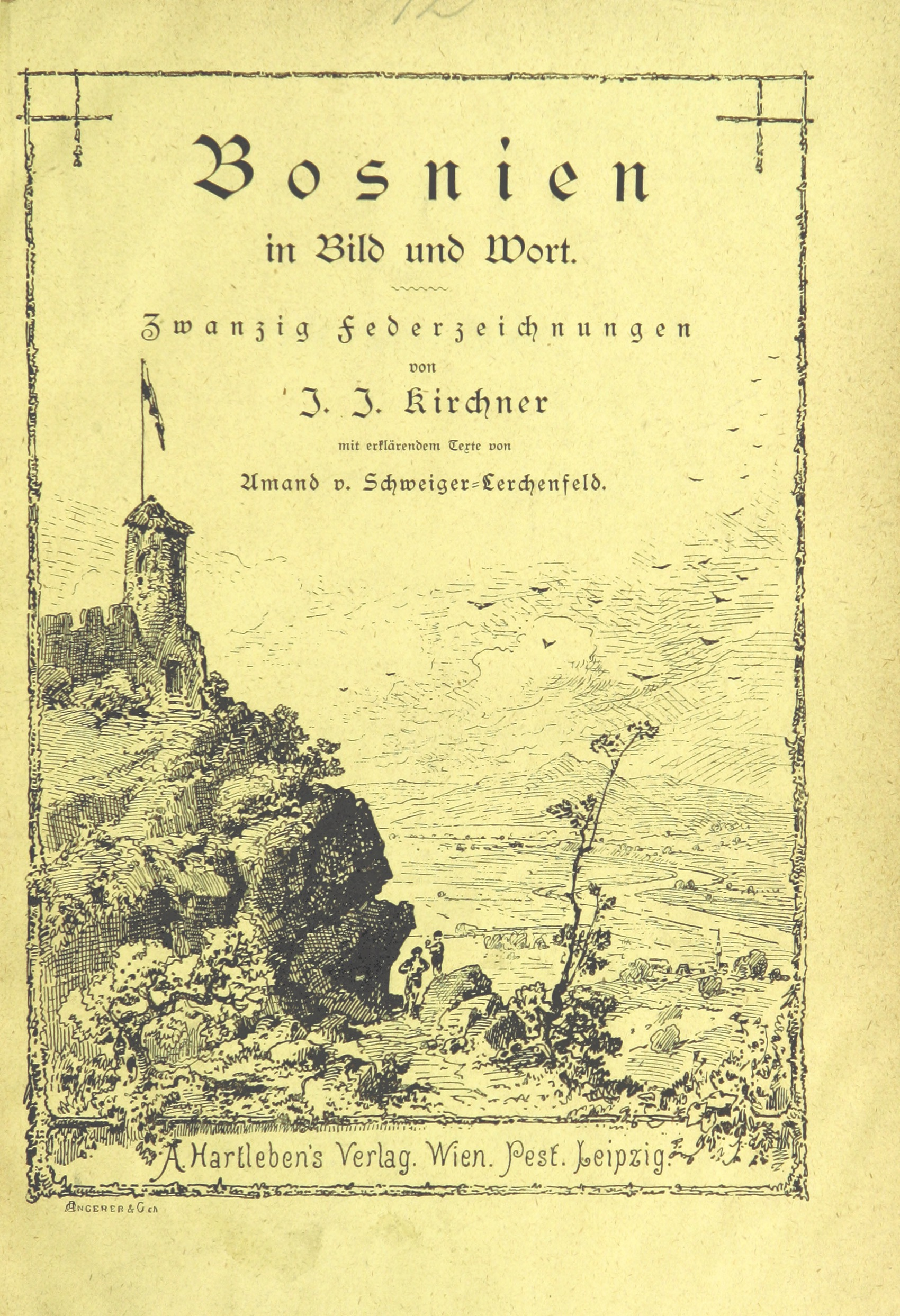 Image taken from: Title: "Bosnien in Bild und Wort. Zwanzig Federzeichnungen von J. J. Kirchner mit erklärendem Texte von A. v. Schweiger-Lerchenfeld" Author: SCHWEIGER-LERCHENFELD, Amand von - Baron Contributor: KIRCHNER, J. J. Shelfmark: "British Library HMNTS 10125.ee.1." Page: 5 Place of Publishing: Wien Date of Publishing: 1879 Issuance: monographic Identifier: 003307288 Explore: Find this item in the British Library catalogue, 'Explore'. Download the PDF for this book (volume: 0) Image found on book scan 5 (NB not necessarily a page number) Download the OCR-derived text for this volume: (plain text) or (json) Click here to see all the illustrations in this book and click here to browse other illustrations published in books in the same year. Order a higher quality version from here. This file is from the Mechanical Curator collection, a set of over 1 million images scanned from out-of-copyright books and released to Flickr Commons by the British Library. Please add the Flickr page URL for the image Please add the British Library system number for the book This tag does not indicate the copyright status of the attached work. A normal copyright tag is still required. See Commons:Licensing.